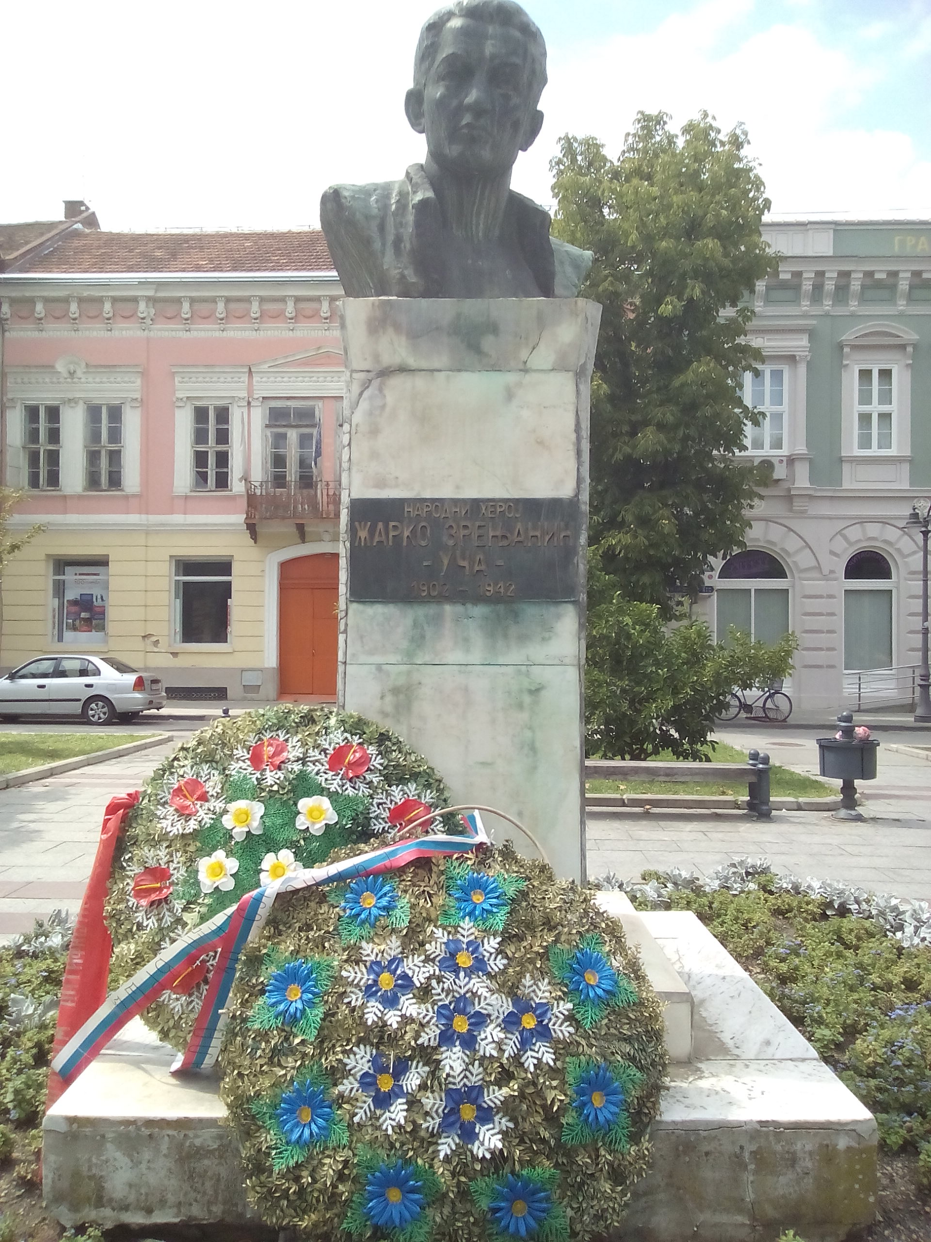 Monument to national hero Žarko Zrenjanin in Vršac.